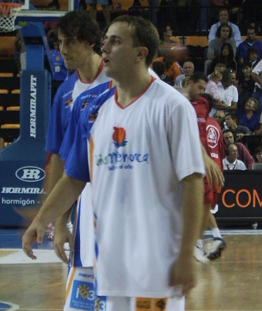 Marko Marinovic with ViveMenorca. Match ViveMenorca-Akasvayu Girona